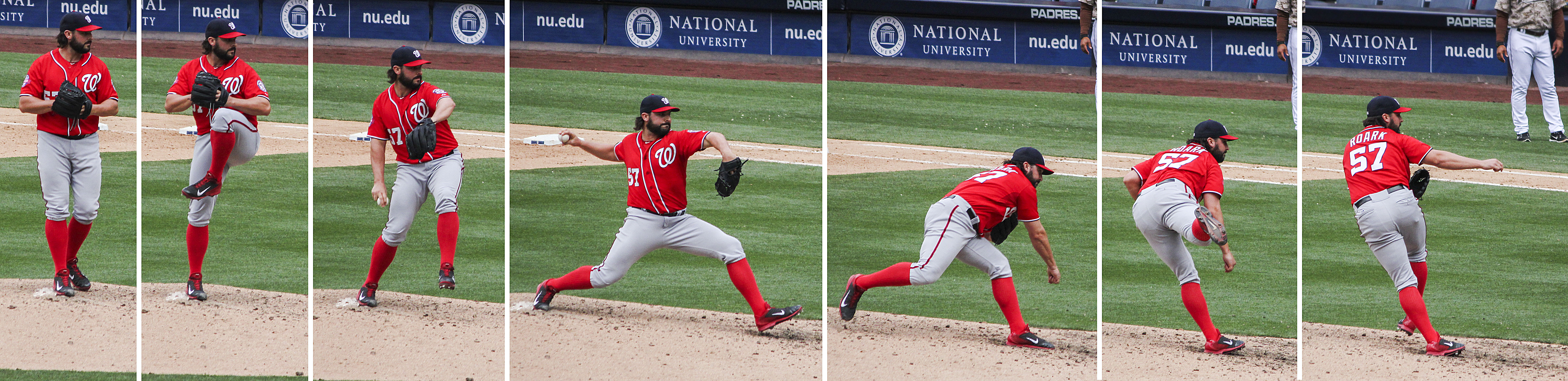 Tanner Roark of the 2015 Nationals.